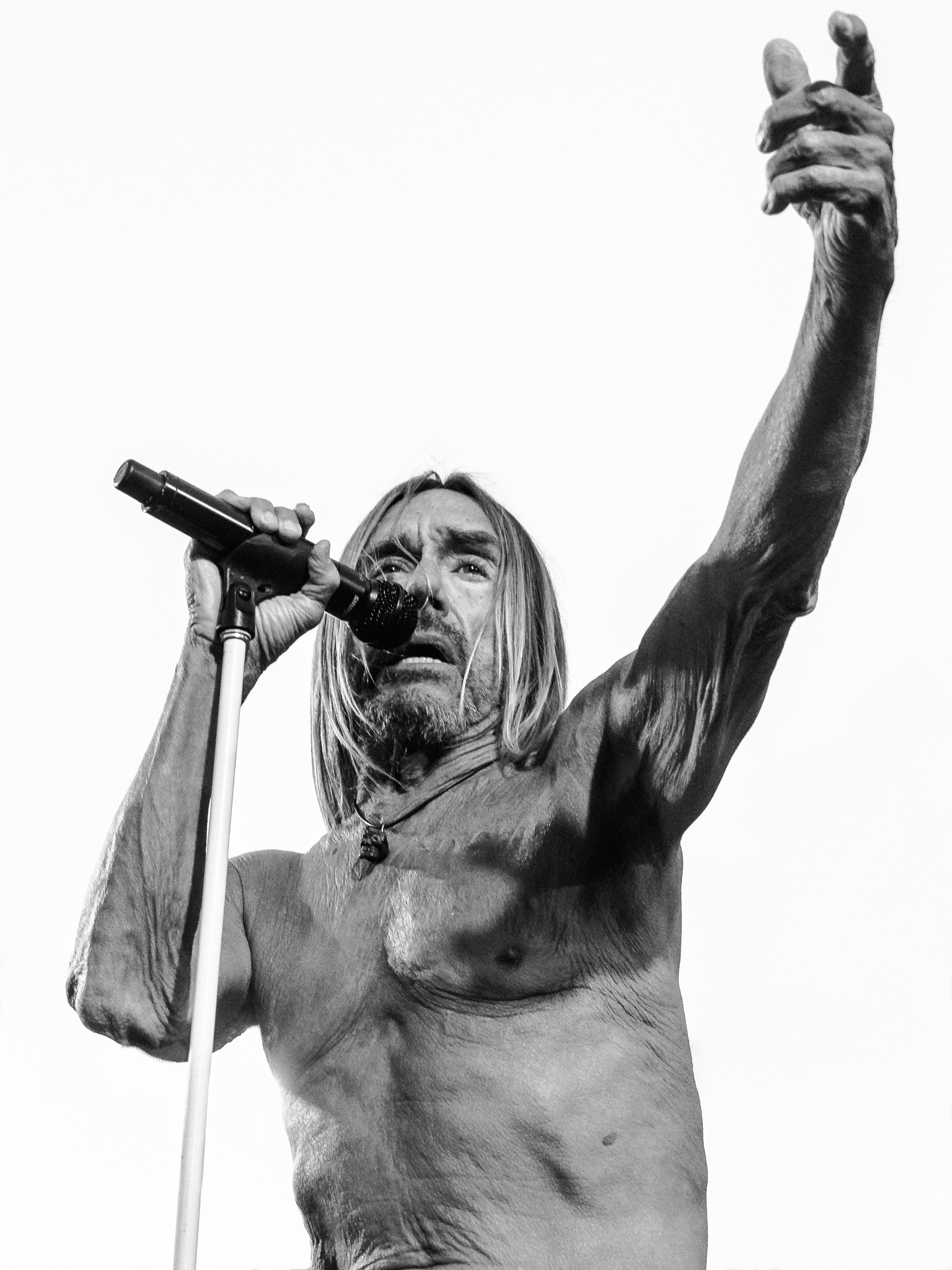 Iggy Pop at Burger Boogaloo, Mosswood Park, Oakland, California 2017